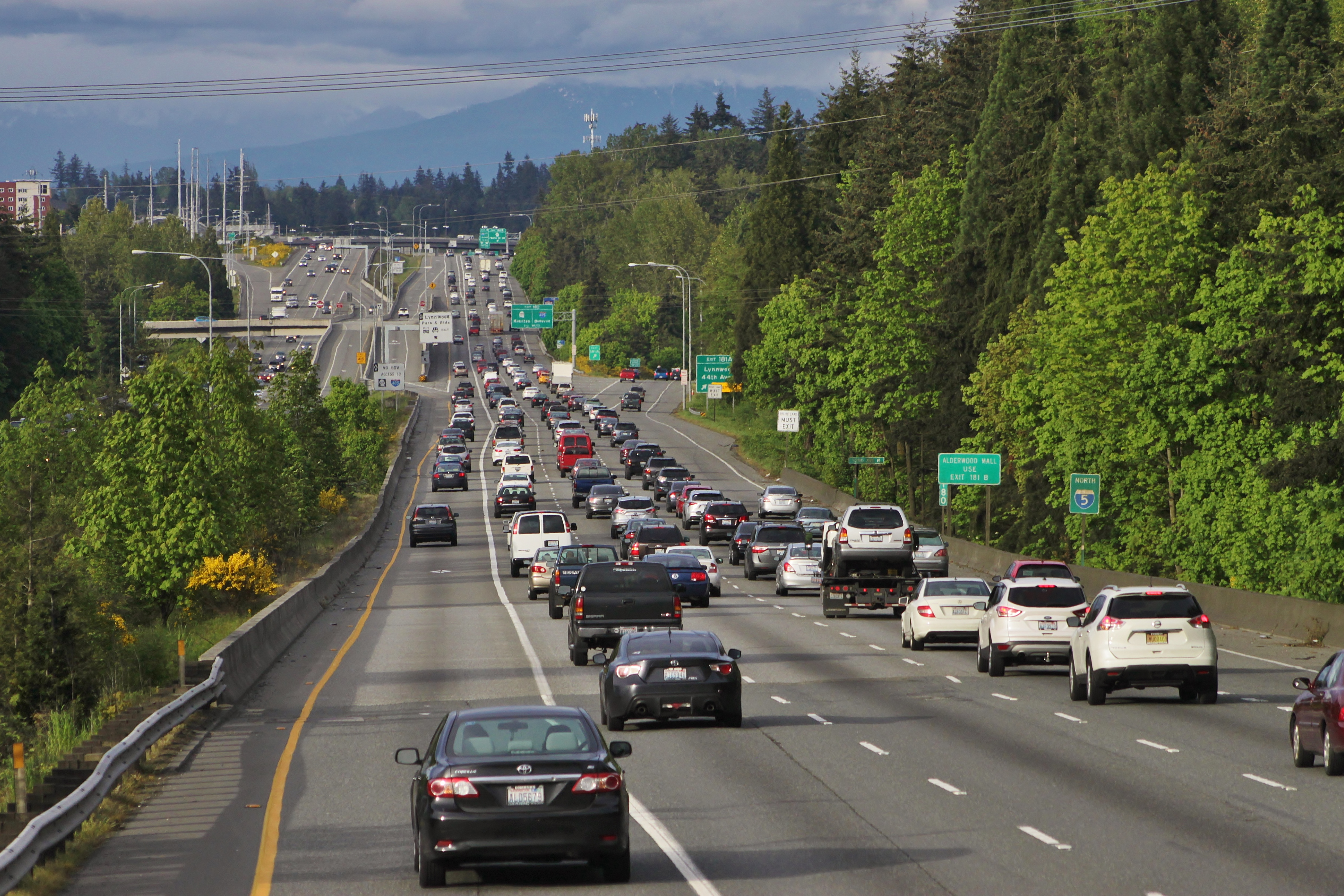 Interstate 5 northbound in Lynnwood, Washington, approaching Lynnwood Transit Center.